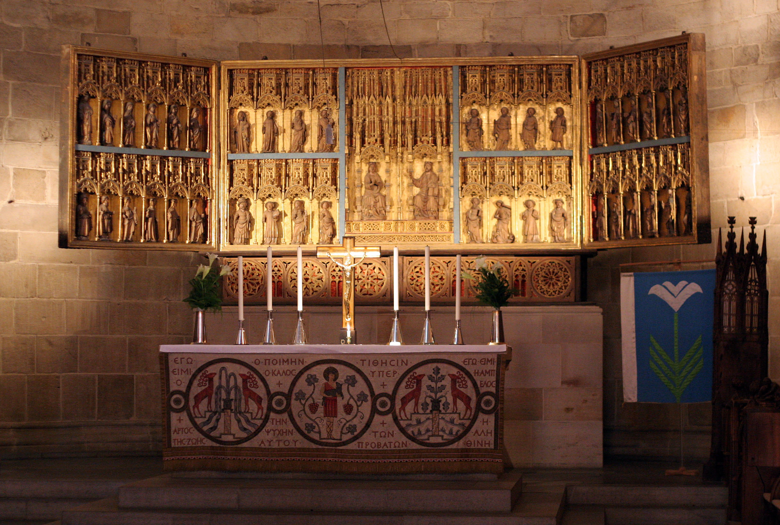 Main altar and iconostasis in Lund Cathedral, Sweden